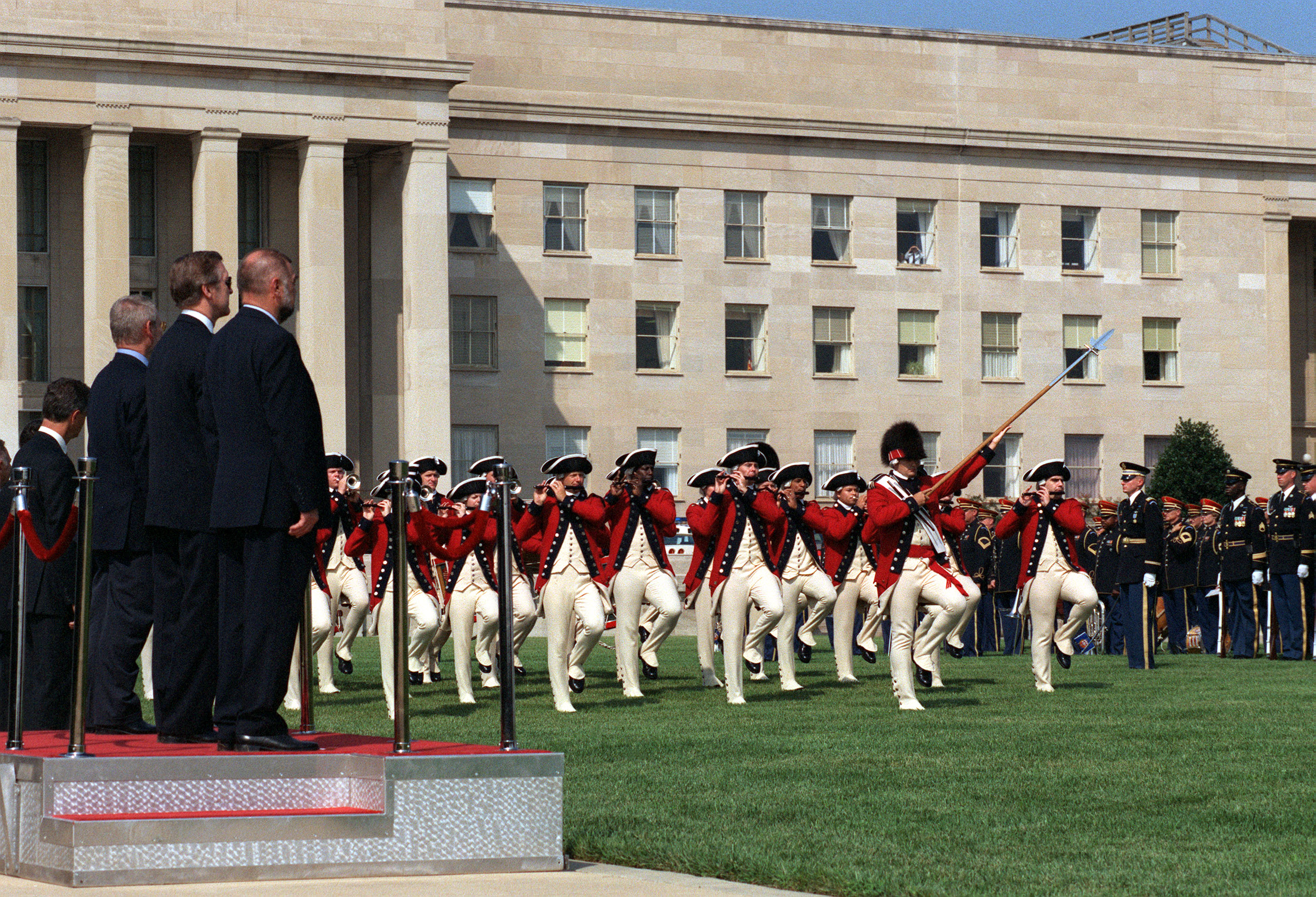 The U.S. Army's Old Guard Fife and Drum Corps passes in review during an armed forces full honors arrival ceremony at the Pentagon on Aug. 8, 2000, for Croatian President Stjepan Mesic (right) and Prime Minister Ivica Racan (left) hosted by Secretary of Defense William S. Cohen (center). Mesic, Racan and Cohen will later meet to discuss general regional security issues of interest to both nations.